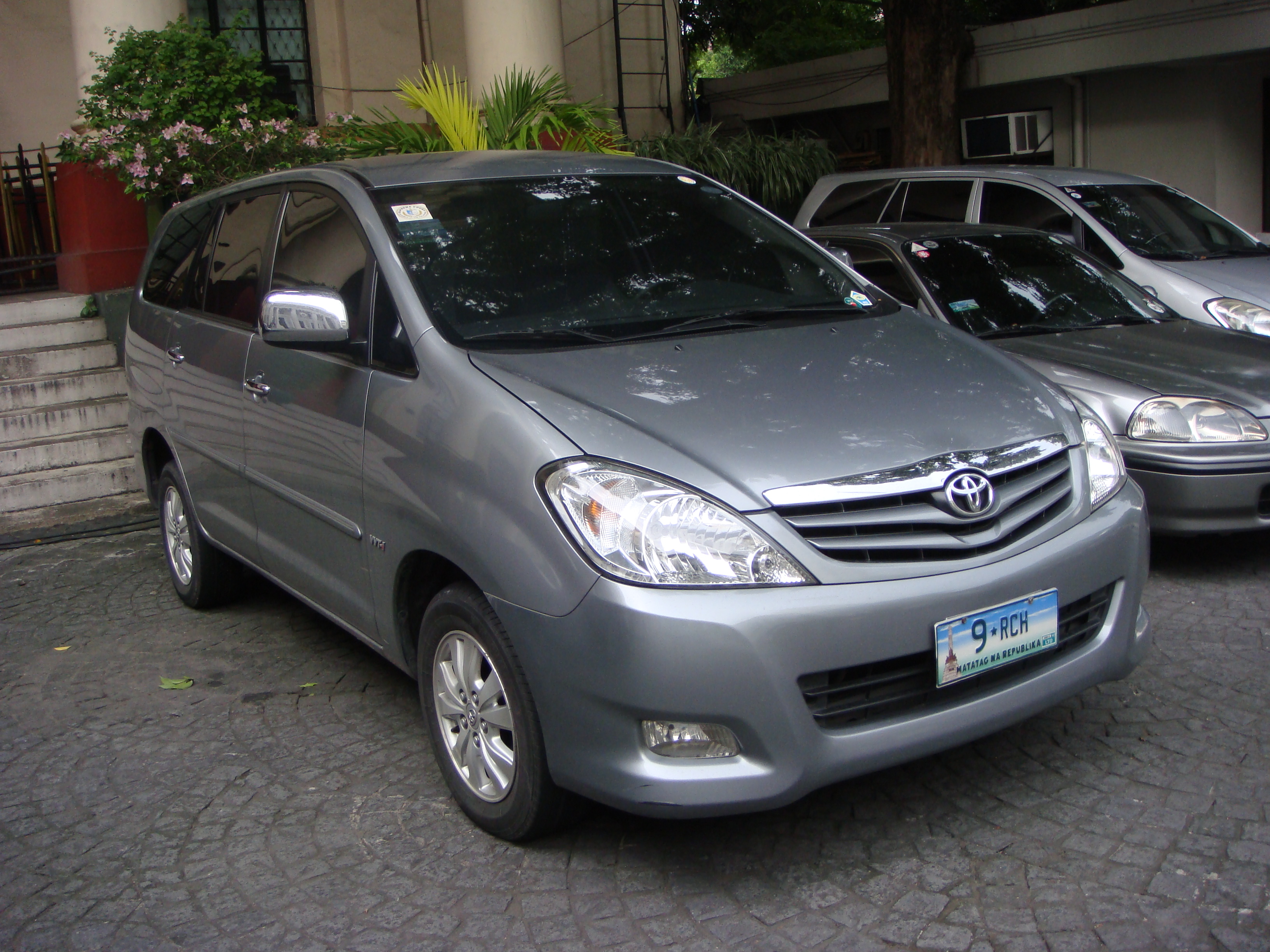 Official Toyota Innova minivan with 1997 plate RCH of Justice Regino C. Hermosisima, jr. JBC member.